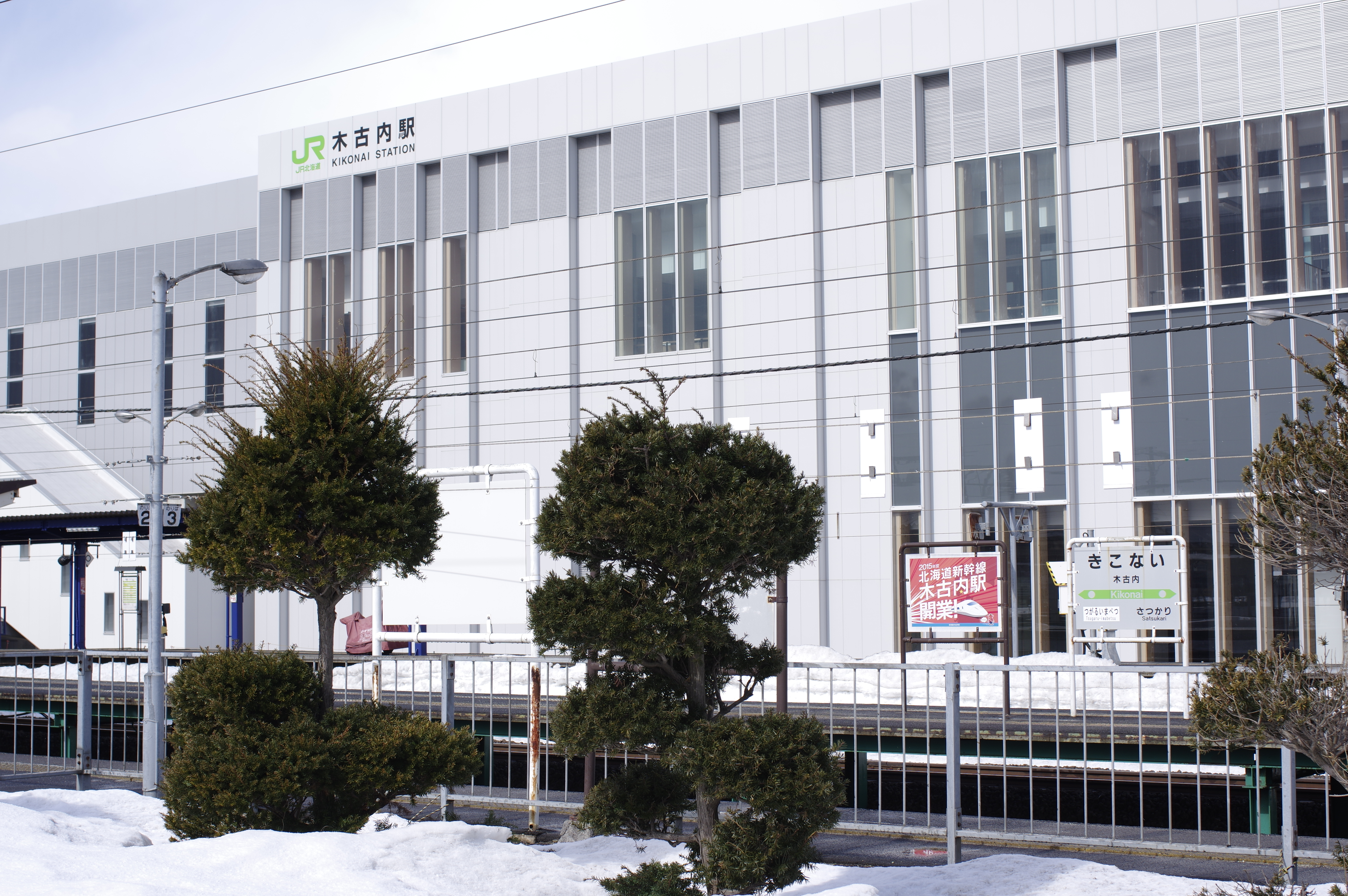 Hokkaido Shinkansen Kikonai Station